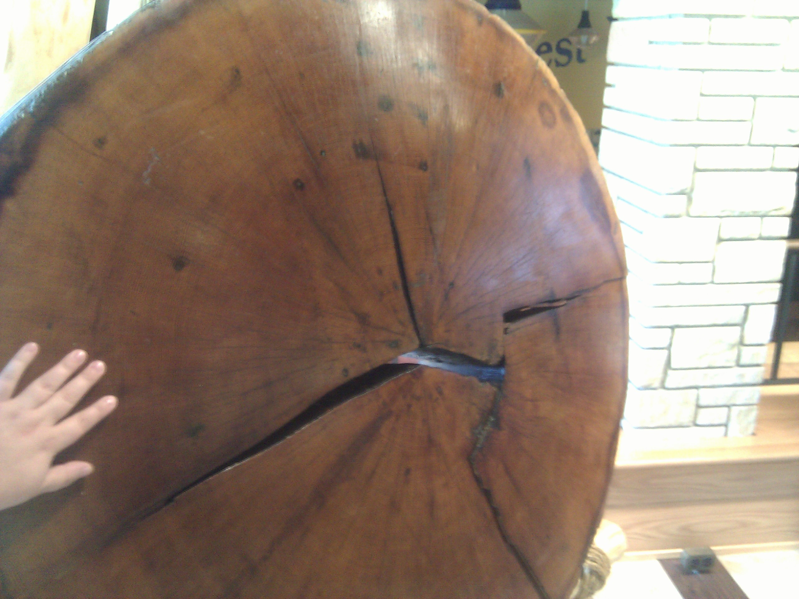 Mingo Oak Cross-section/Slice. At the time this tree was cut in Mingo County, West Virginia, it was the oldest white oak in the United States. This slice currently resides in the West Virginia Davis College. When it was cut in 1938 it was estimated to be around 584 years old. Shown here with the hand of an adult woman for size comparison.